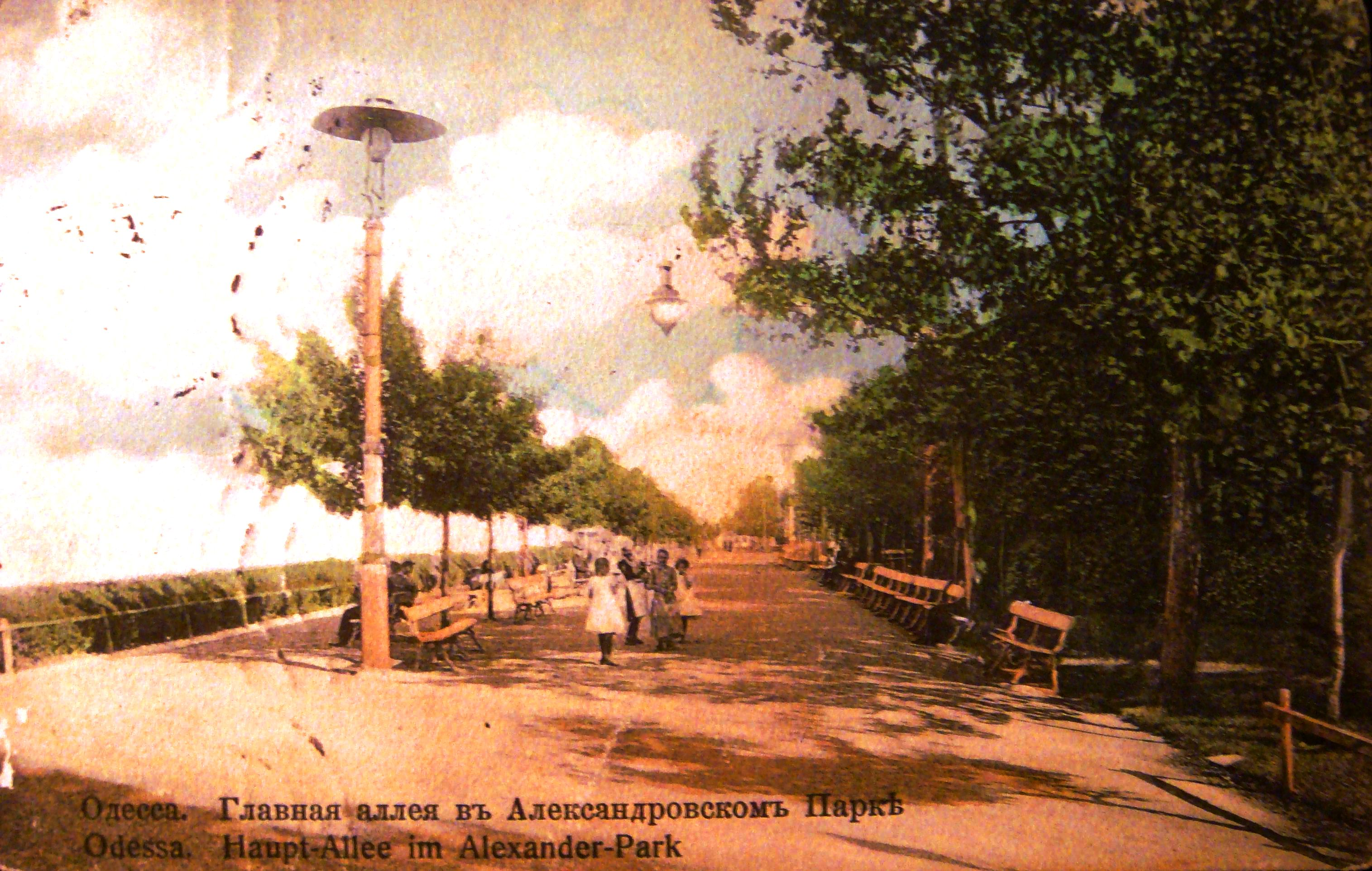 Old Carte Postale with view of Alexander Park in Odessa, Russia